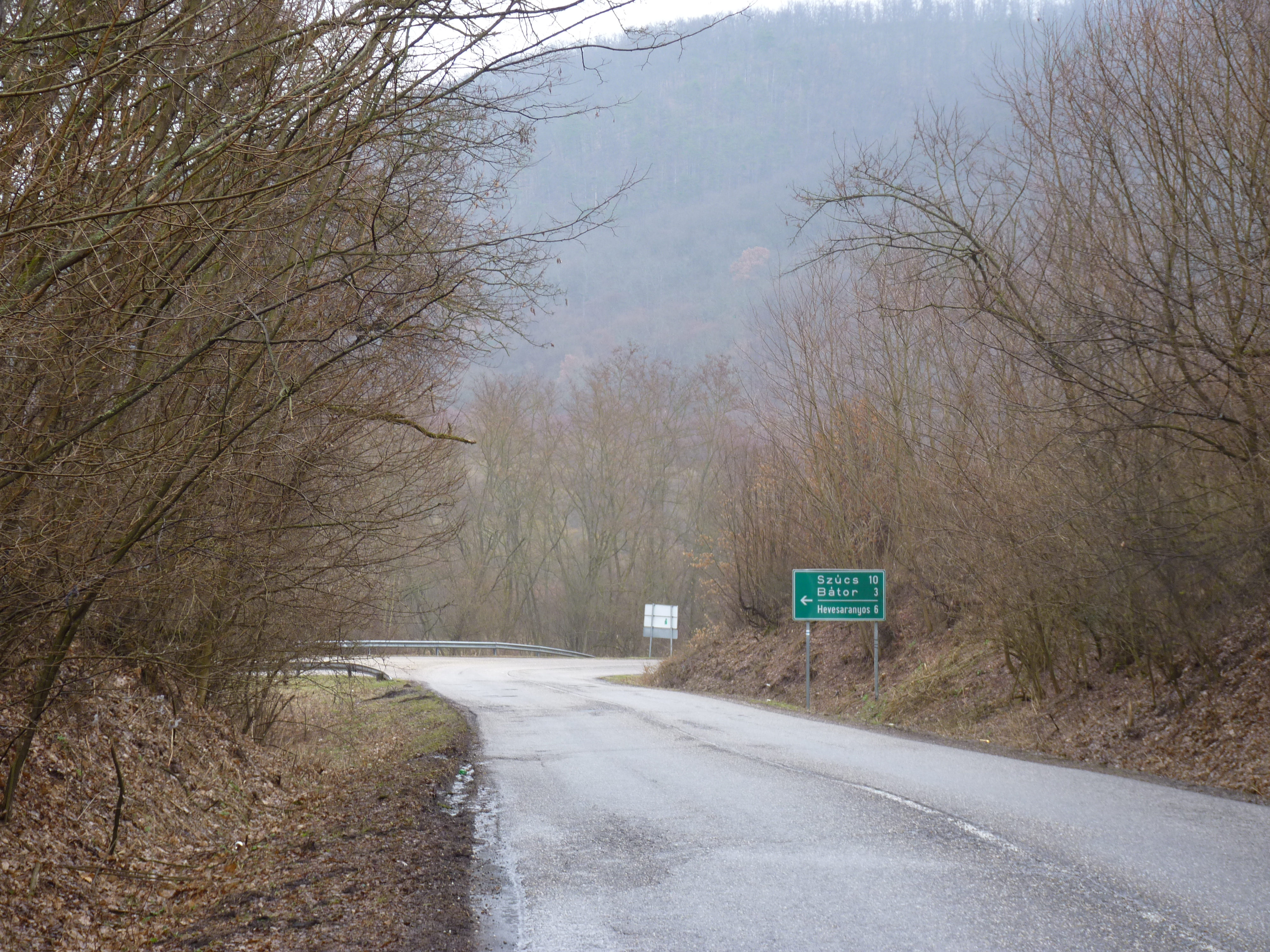 Road 2413 Outside of Bátor between Egerbakta and Bükkszék